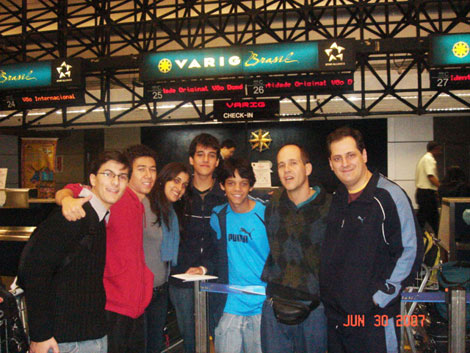 Equipe brasileira do IYPT 2007.